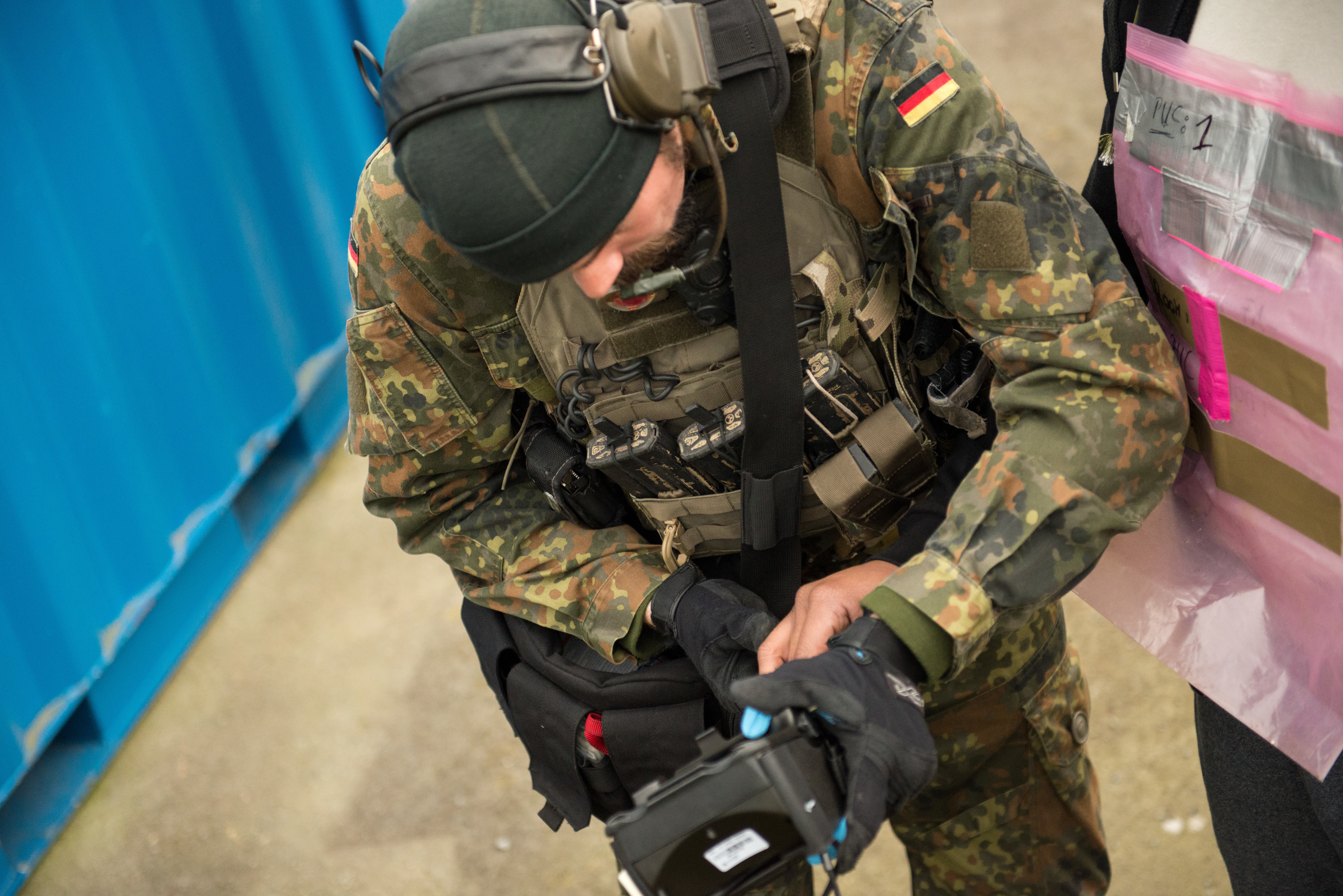 A German Kampfschwimmer, Navy Commando Combat Swimmers, collects the fingerprints of a role-player during one of the practical exercises of the NATO Special Operation Forces (SOF) Campus Technical Exploitation Operations Coordinator Course in the SOF campus, on Chièvres Air Base, in Chièvres, Belgium, Feb. 26, 2016. (U.S. Army photo by Visual Information Specialist Pierre-Etienne Courtejoie/Released)